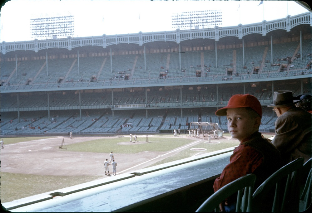 Color photo of the Old Yankee Stadium before a Yankees – Red Sox game in September 1959.